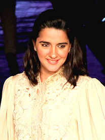 Shruti Seth at the 2015 Lakme Fashion Week.